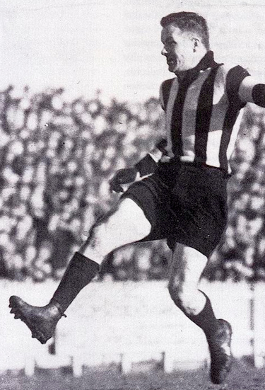 An image of Australian rules footballer Gordon Coventry taken in 1934.